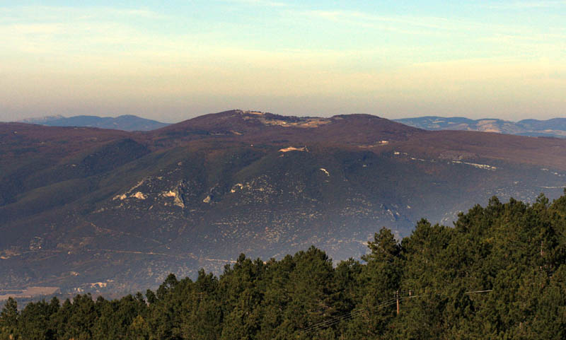 Signal de Saint-Pierre (1 256 m), the higest hills of the "Monts de Vaucluse", France. It is a view from south.